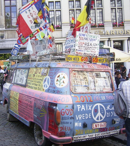 Barkas B 1000 Flower Power Bus